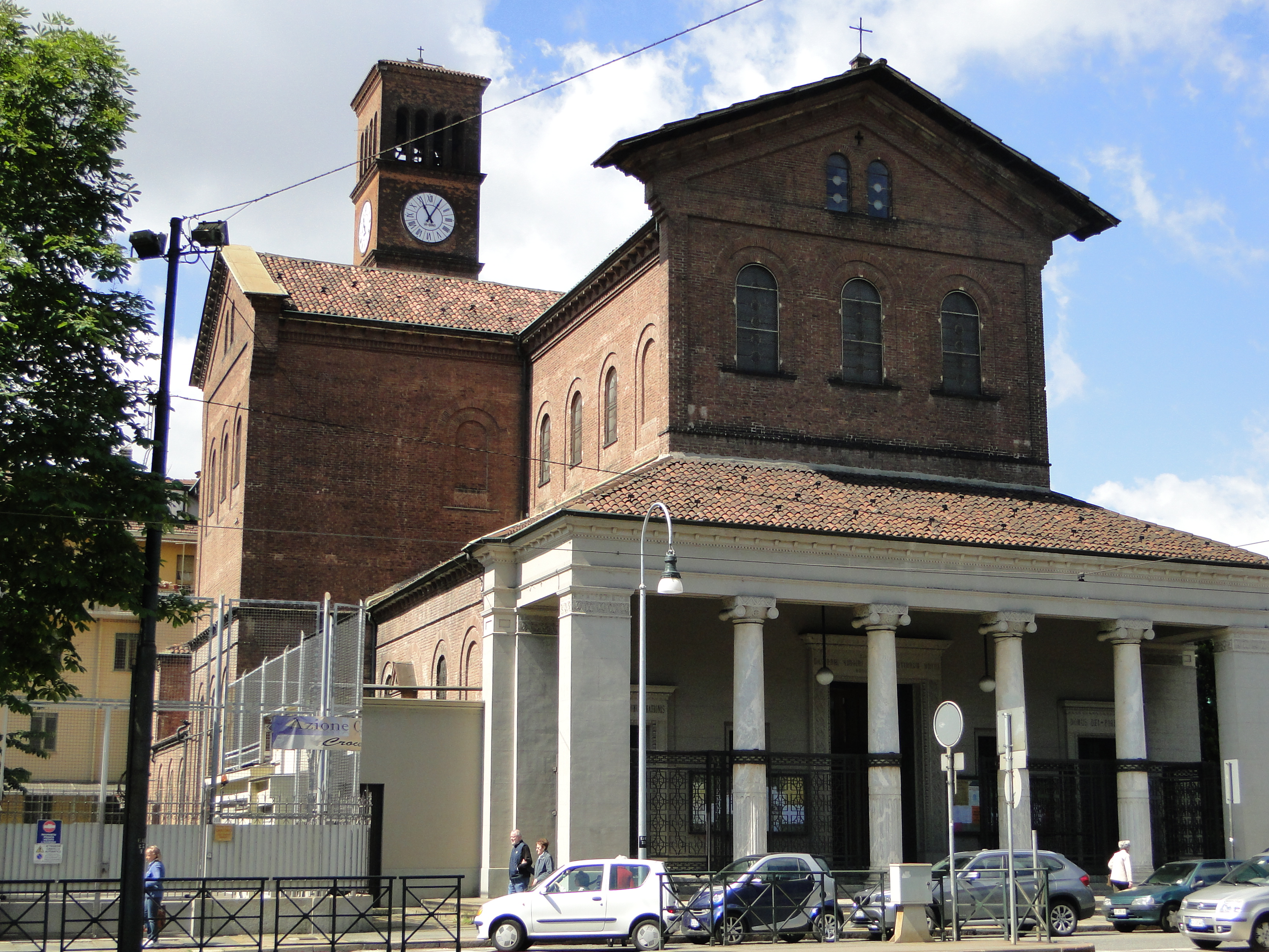 Parish Church of La Crocetta in Turin